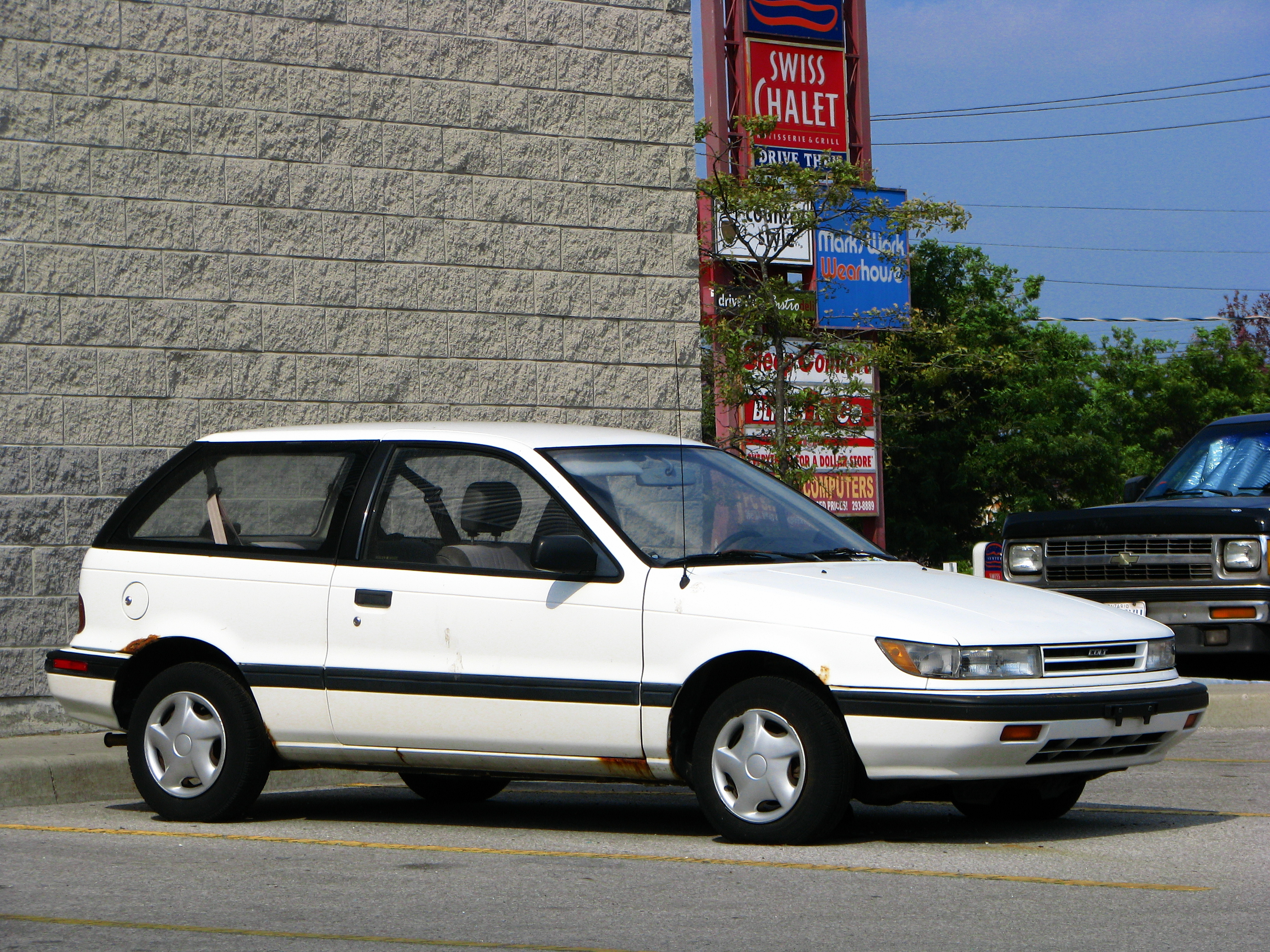 I haven't seen one of these body styles in roughly ten years.